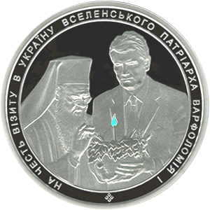 Coin of Ukraine